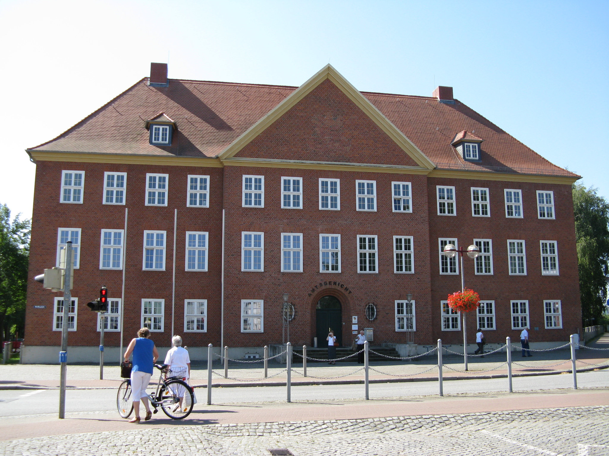 Magistrates' Court at Moltkeplatz in Parchim, Mecklenburg-Vorpommern, Germany